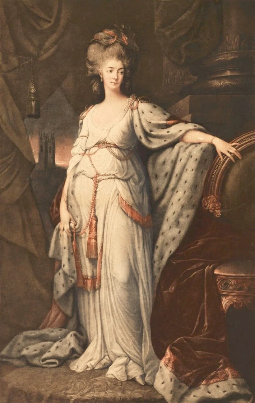 Work by Valentine Green, published by John Brydon, after Thomas Gainsborough, and after Richard Cosway